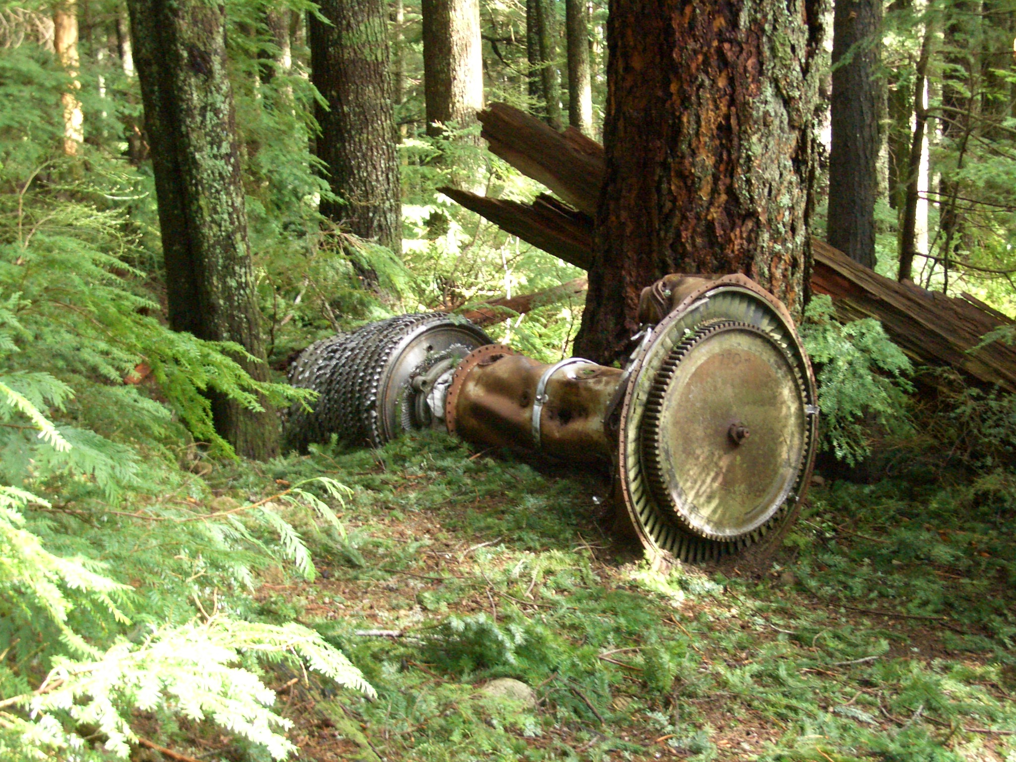 A destroyed General Electric J47 aircraft engine in the woods on the south side of Grouse Mountain. This is on a trail that runs straight along a cut in the fores from North Vancouver (Mont-Royale area) due north to the Grouse Mt. skiing area, along which a chairlift system operated in the 1950s. The location is near the site of a 1954 crash of an USAF F-86D Sabre aircraft (s/n 51-2987) , so this probably is (part of) the engine of the destroyed aircraft.